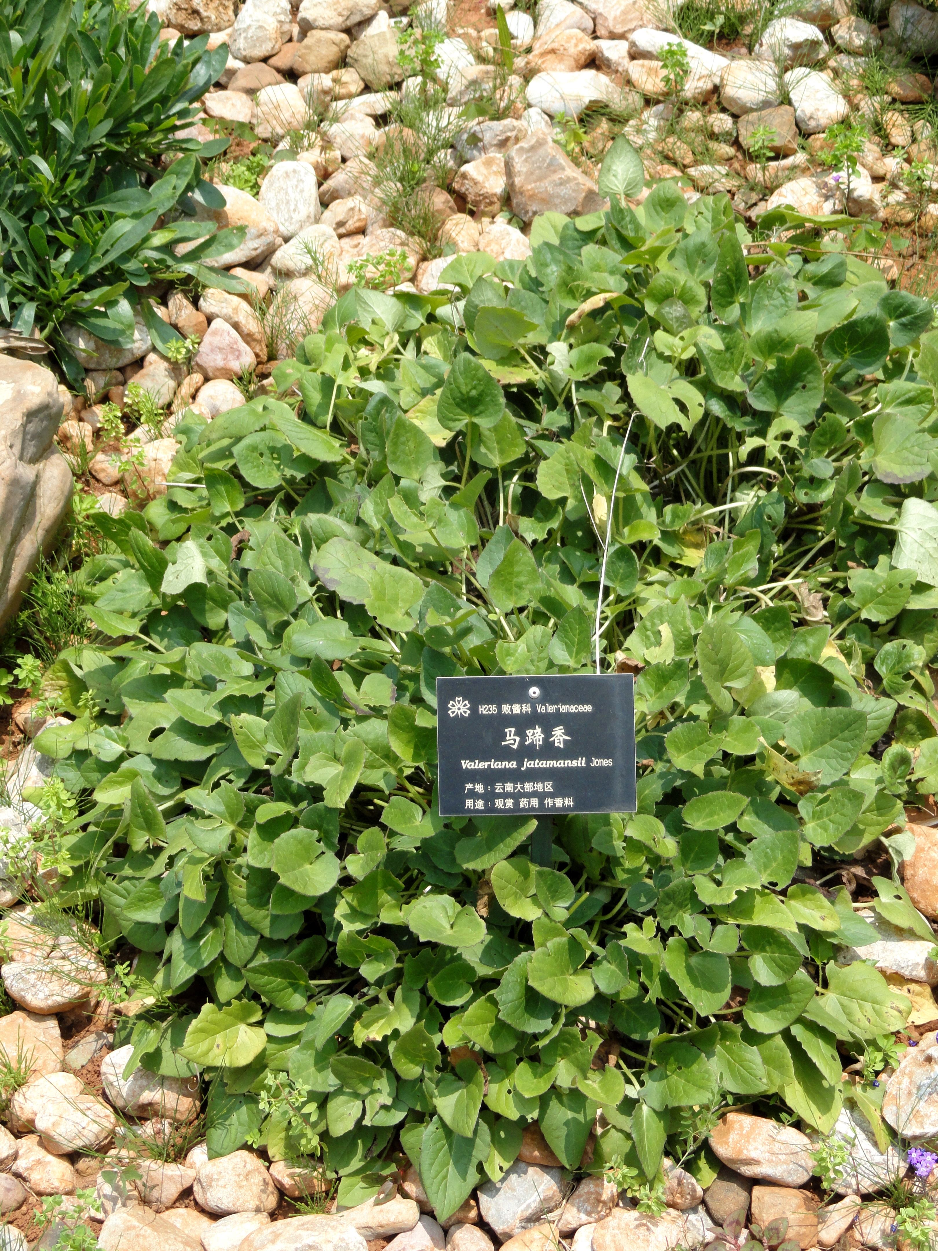 Plant specimen in the Kunming Botanical Garden, Kunming, Yunnan, China.